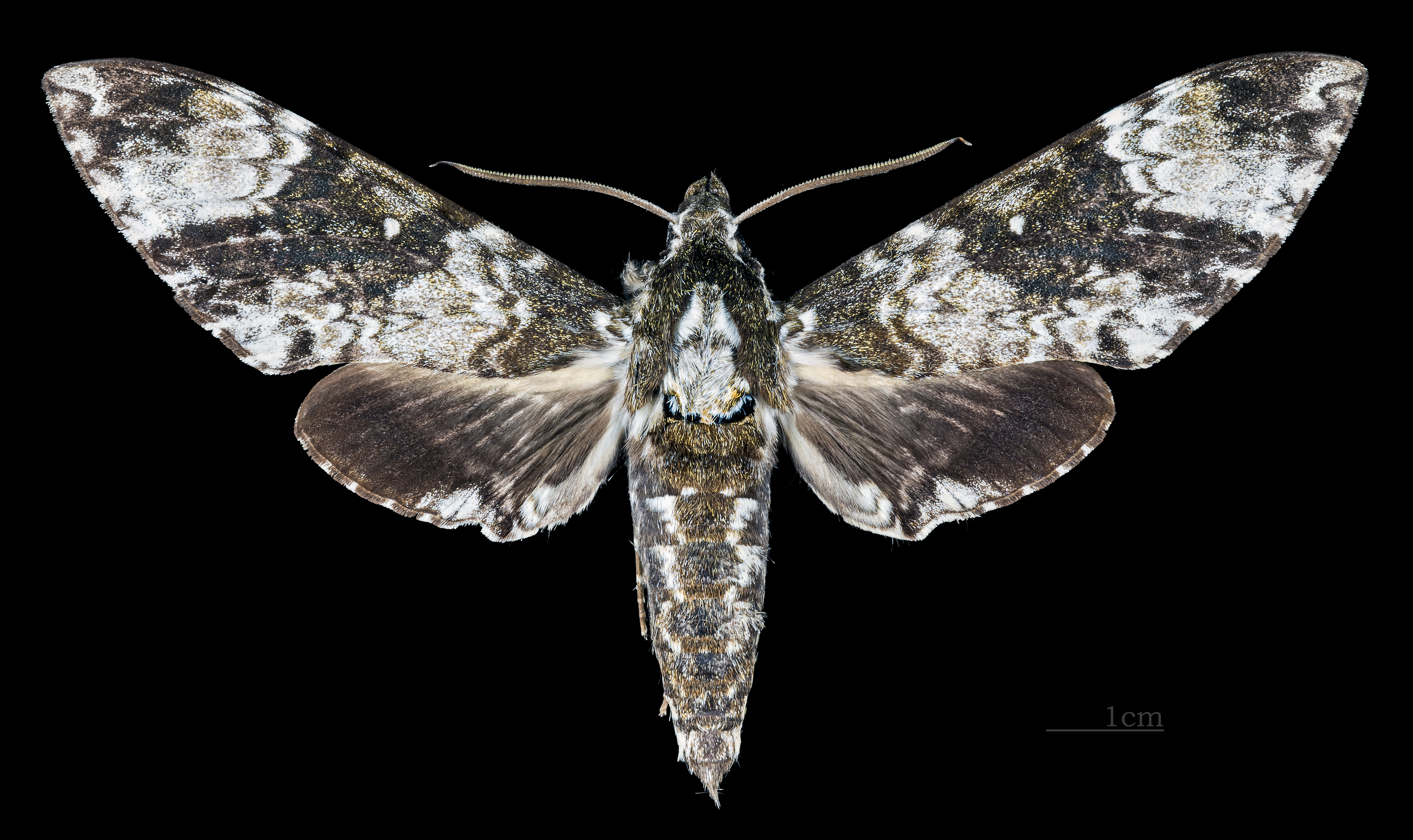 Poliana leucomelas - Dorsal side Collection of the Mathematician Laurent Schwartz